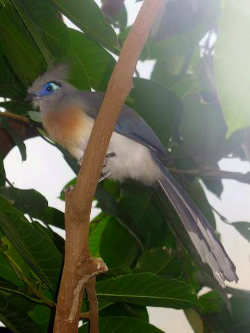 Crested Coua